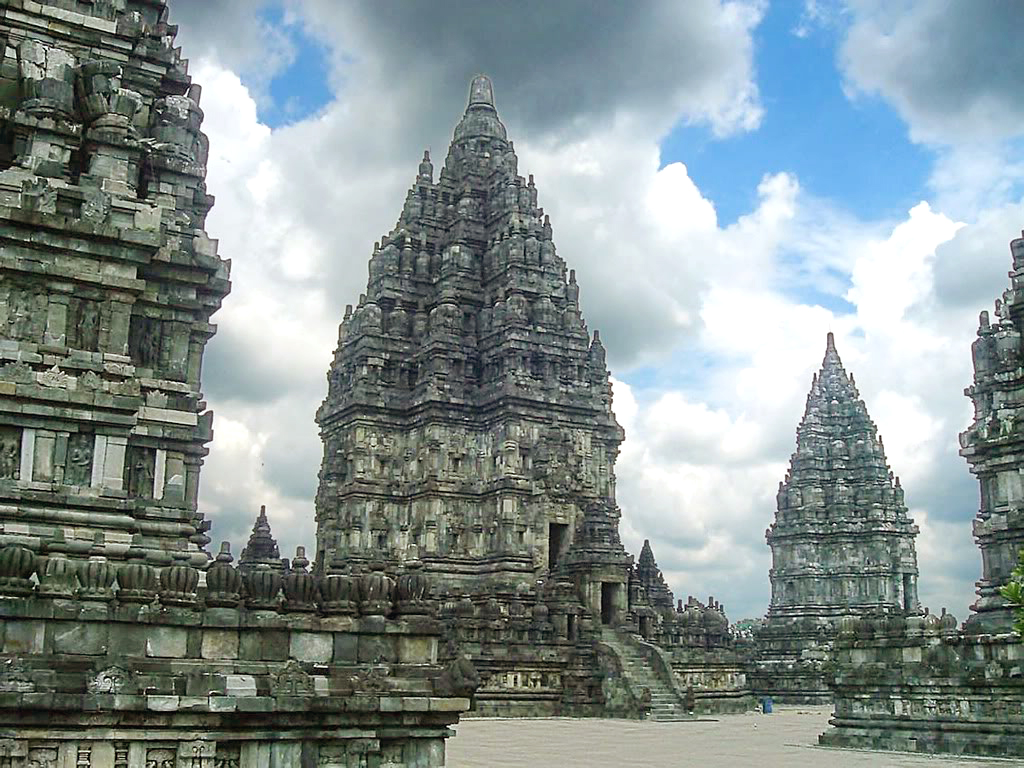 Shiva temple, the main temple at Prambanan temple complex rising 47m high (130 feet)and measures 34m x 34m at its base. The main temple houses the statue of Shiva Mahadewa, Ganesha, Durga Mahisashuramardhini, and Agastya on each chamber of cardinal points. On the far right is stood Wishnu temple. Around the ballustrade of the Shiva temple adorned with panels of bas reliefs narating the story from Ramayana. This ninth century temple complex was build by Hindu Mataram Kingdom.